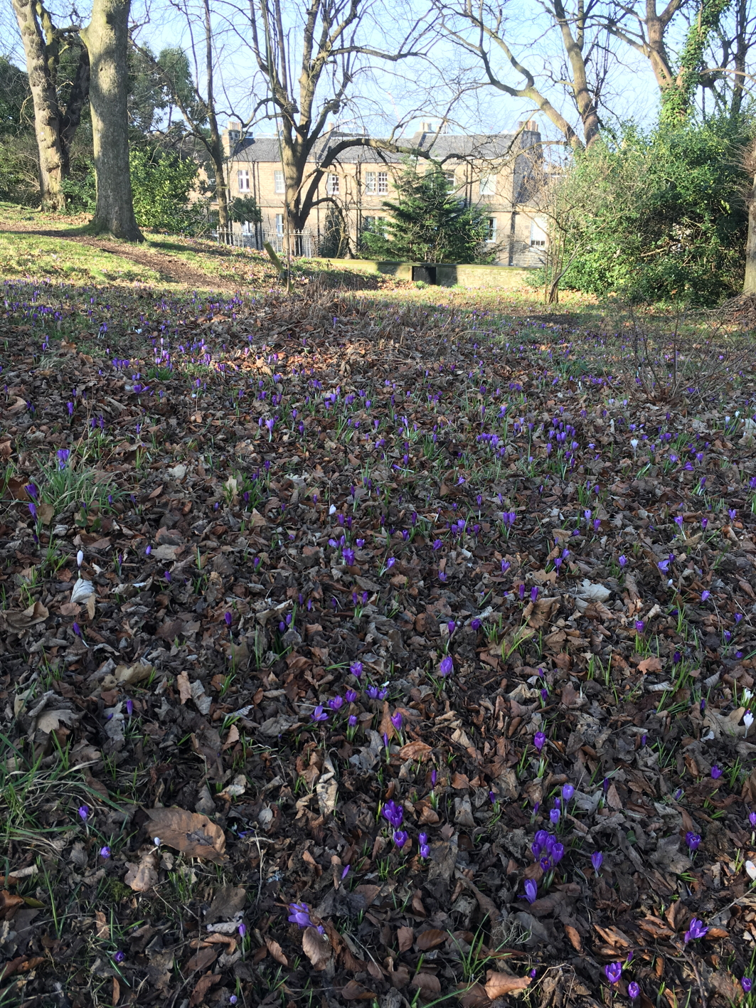 Crocuses in the early spring in Regent Gardens, Edinburgh